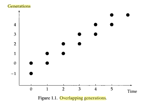 Showing the generational pattern